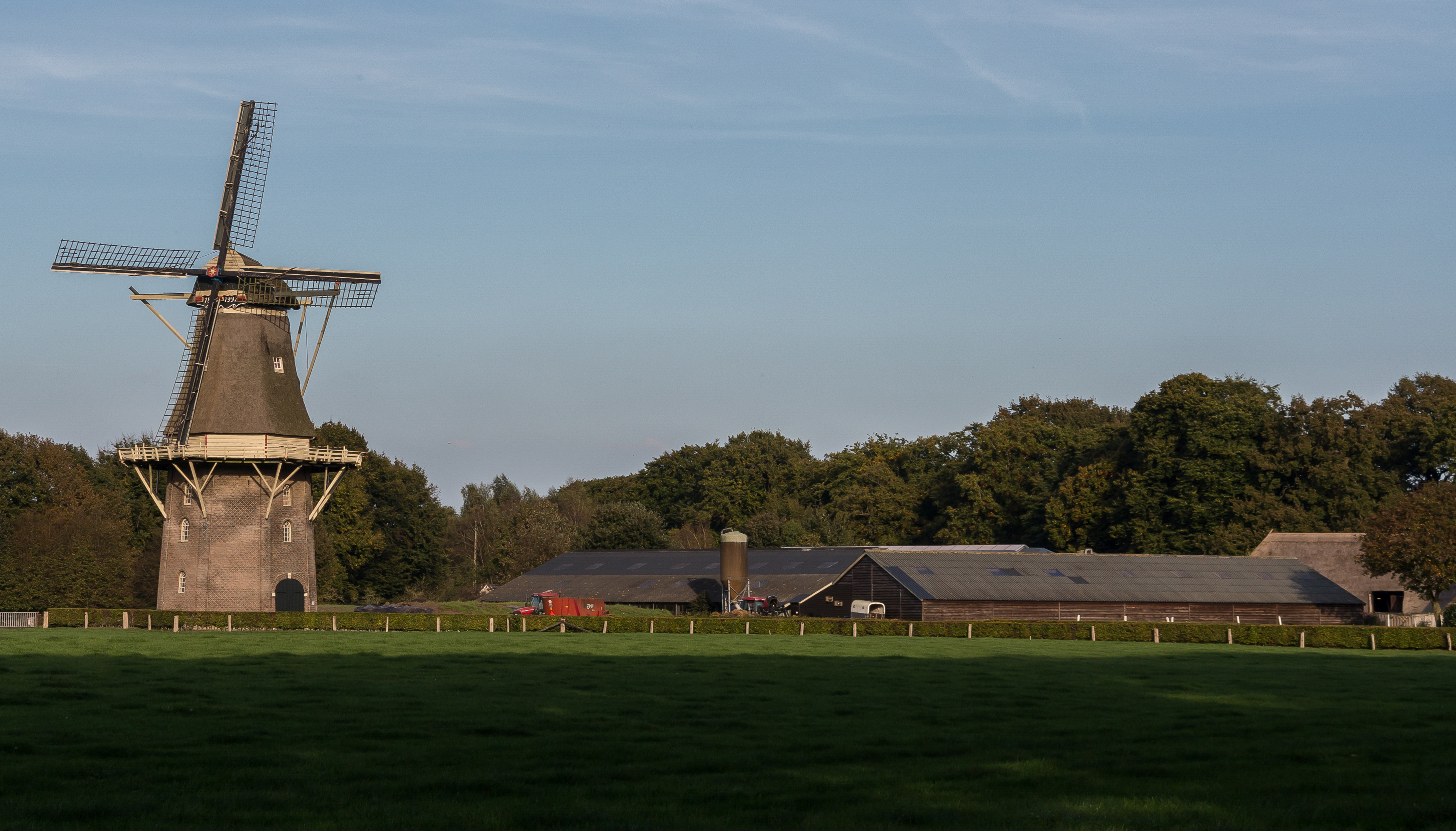 Vilsteren, windmill (de Vilsterse molen) and farmer house